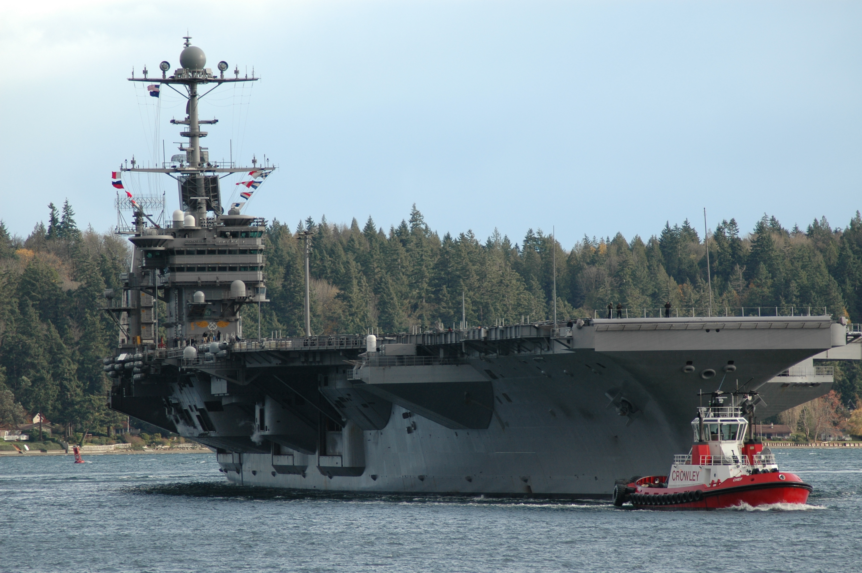 Photo by Mark Putnam